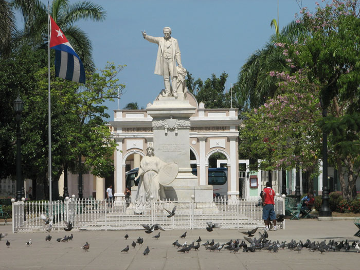 My Own - Wilder